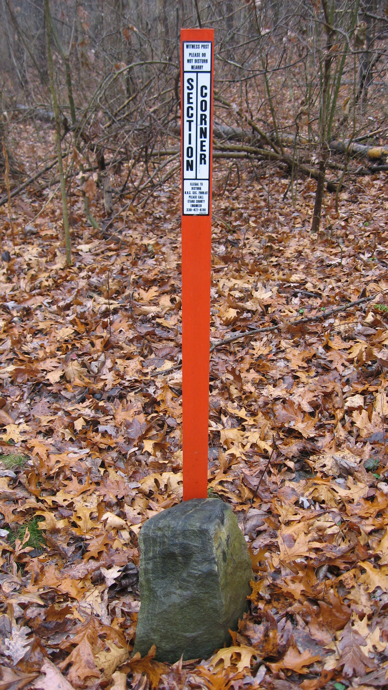 Comprehensive view of the Seven Ranges Terminus, a survey marker placed at the end of the Seven Ranges in 1786. Today, it is located at the junction of Carroll, Stark, and Tuscarawas counties in the U.S. state of Ohio, and it is listed on the National Register of Historic Places.